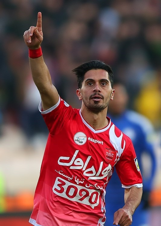 Omid Alishah playing for Persepolis in IPL match against Esteghlal Khuzestan